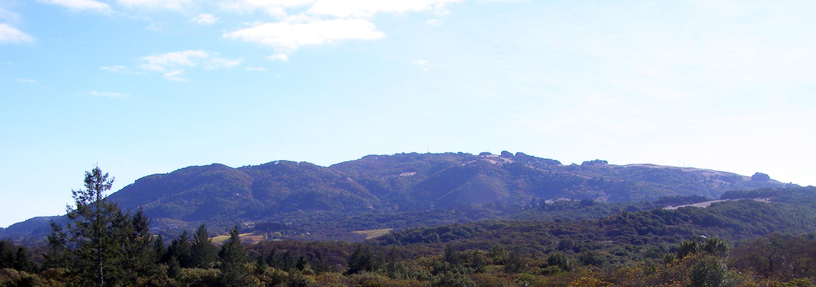 Sonoma mtn, so county calif viewed from annadel park